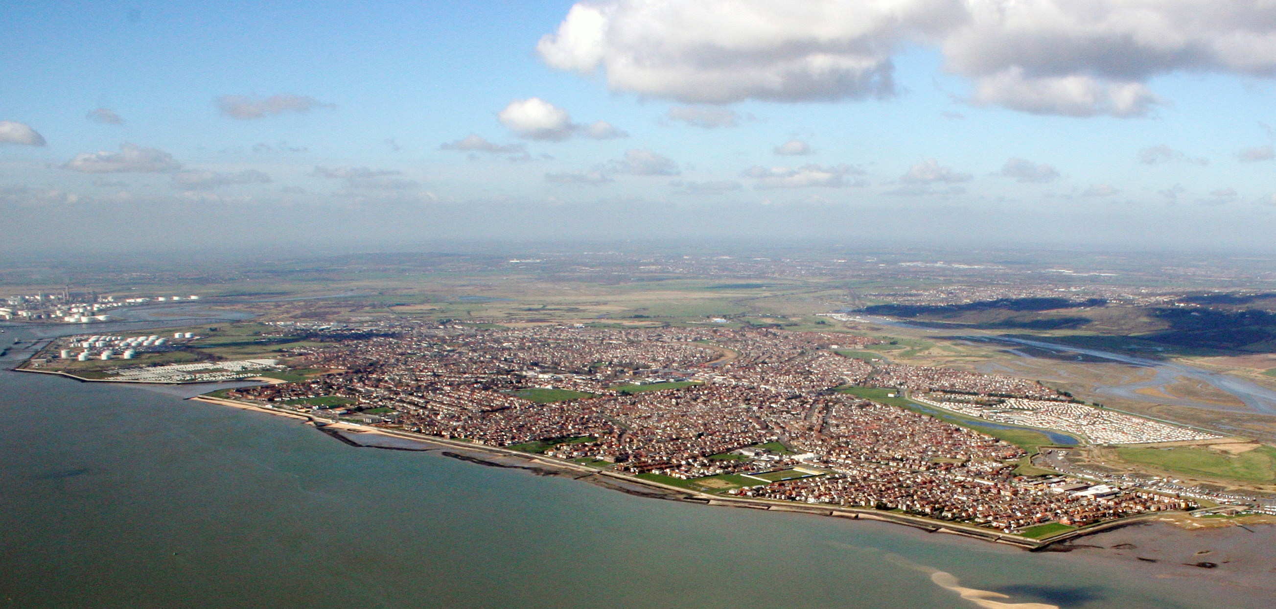 aerial photo of Canvey Island